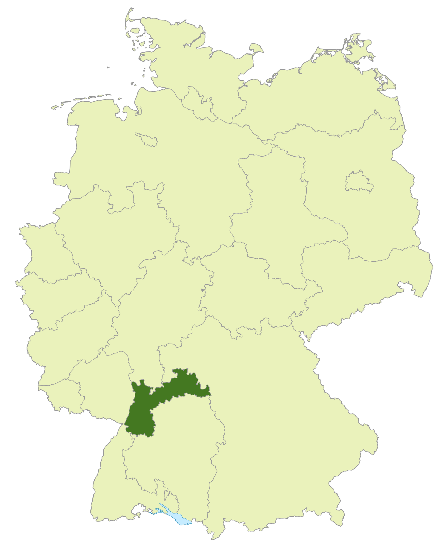 Map of regional soccer association Baden, Germany